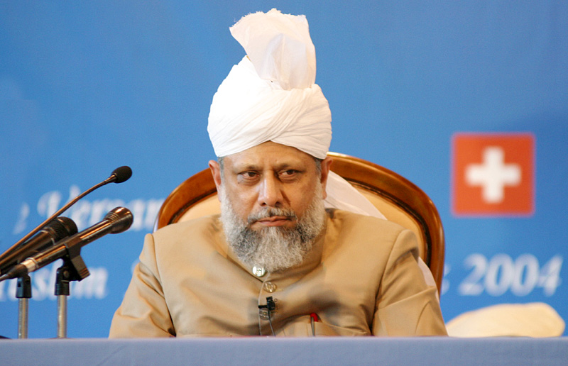 Jahresversammlung Sschweiz